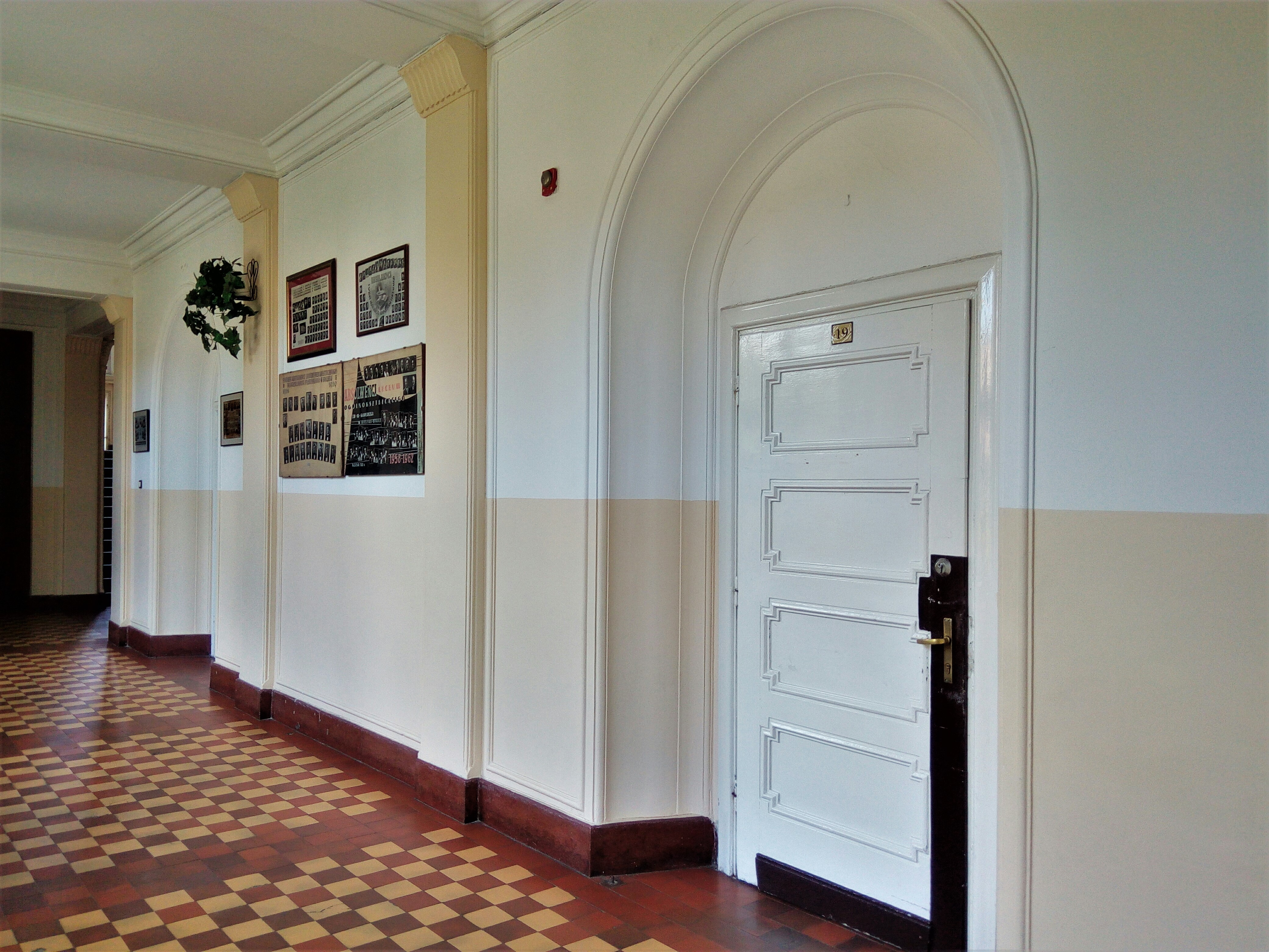 Copernicus Lyceum in Bielsko-Biała – the geography classroom (classroom no. 19)